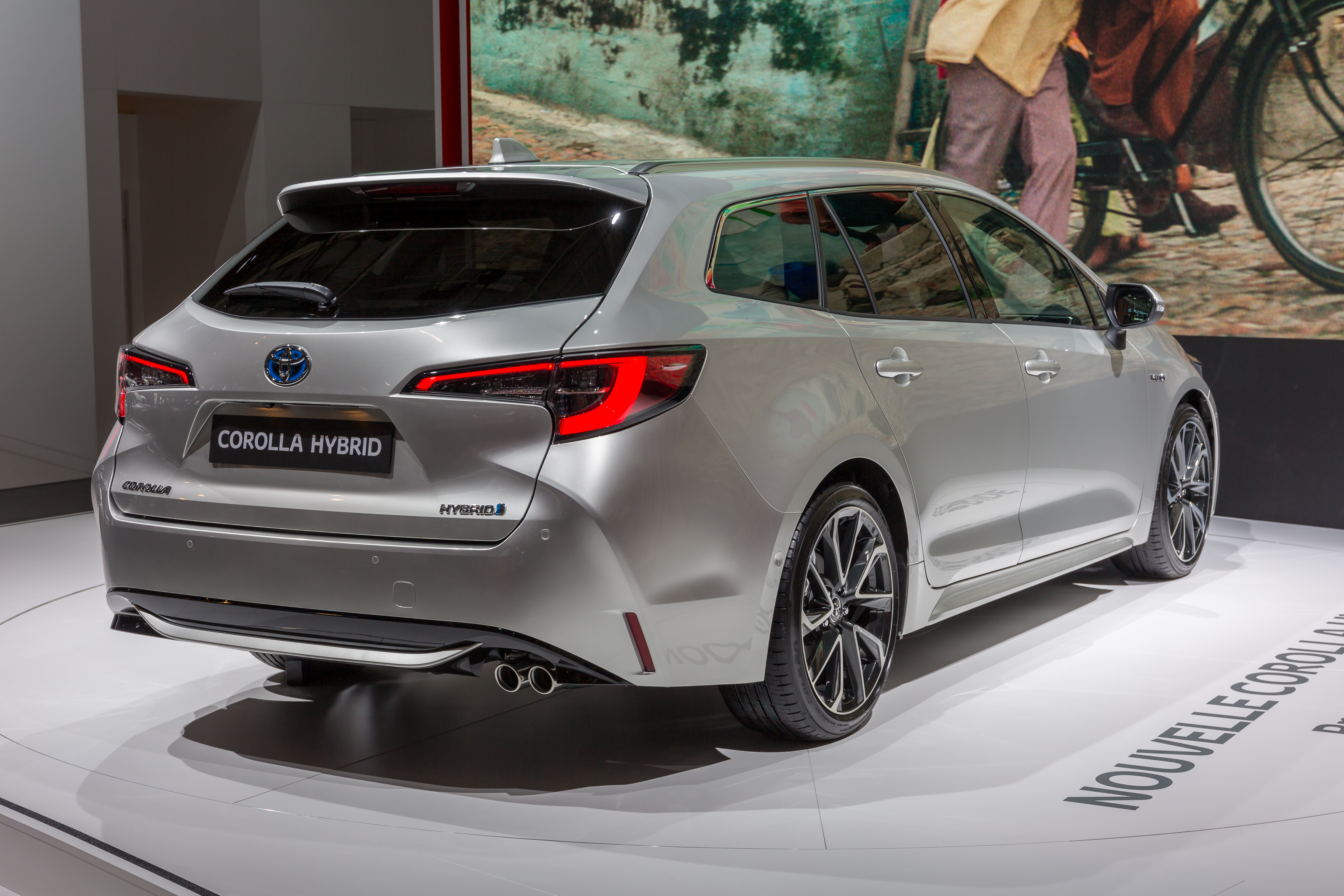 Toyota Corolla Hybrid, Mondial Paris Motor Show 2018